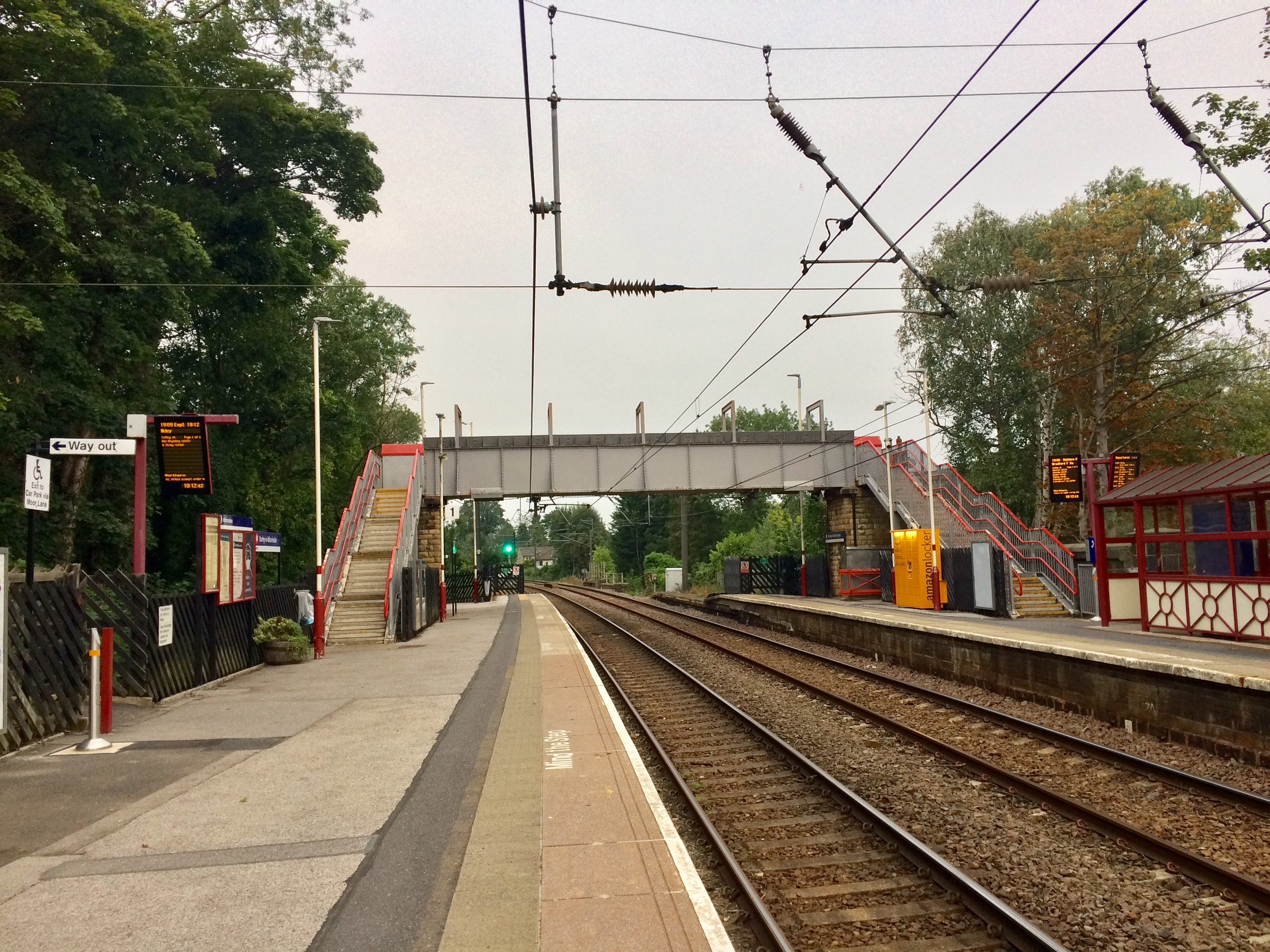 Burley in Wharfedale railway station (August 2020)